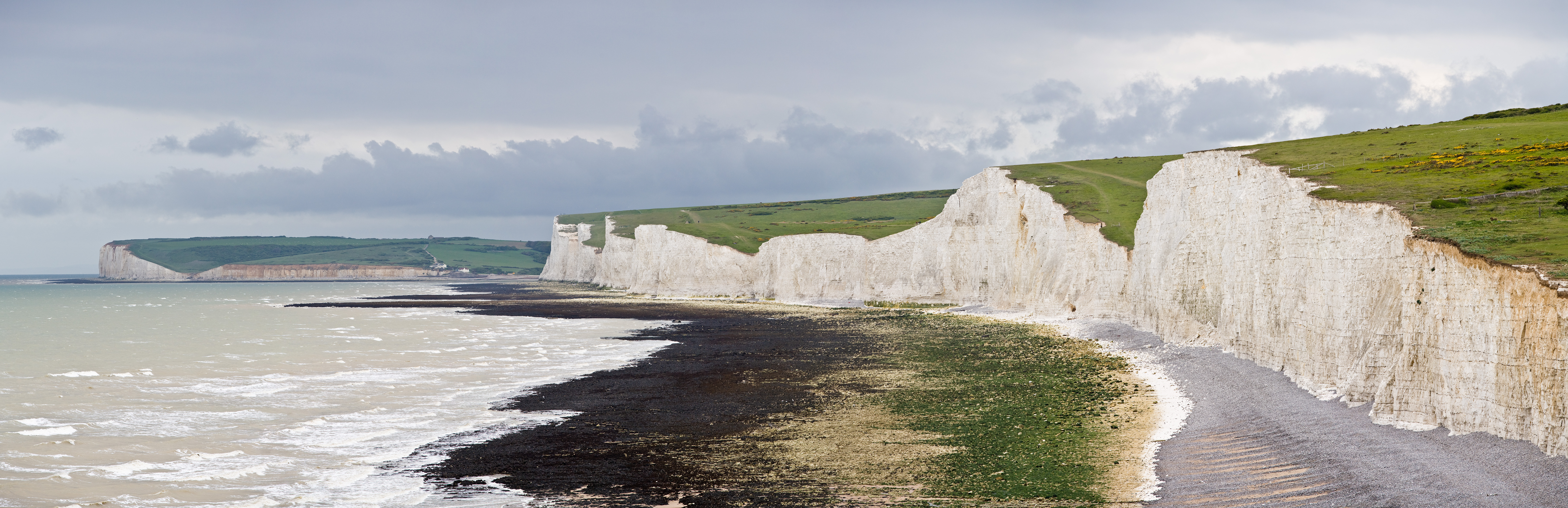 The Seven Sisters, a series of seven chalk cliff peaks along the East Sussex coast in England. Seaford head in the background is on the other side of the River Cuckmere and not part of the Seven Sisters. Taken by myself as a series of 7 frames with a Canon 5D and 70-200mm f/2.8L lens at 200mm.